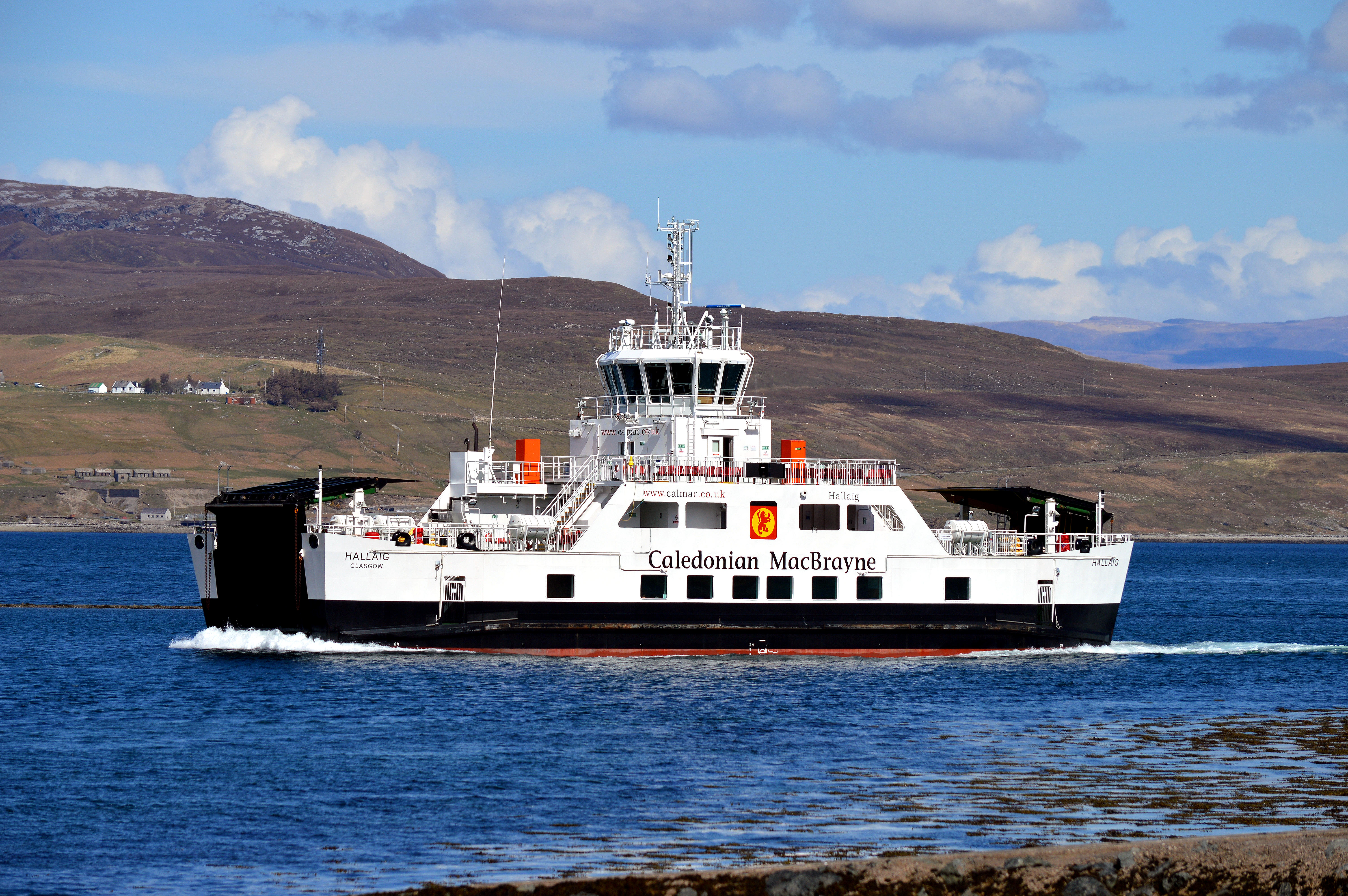 The battery-powered Raasay to Sconser ferry approaching the latter port on 9 May 2015.